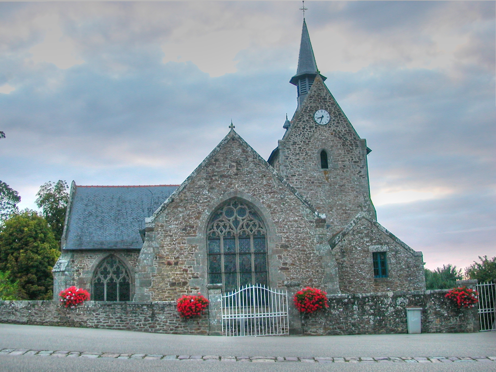 Church of Châteauneuf-d'Ille-et-Vilaine